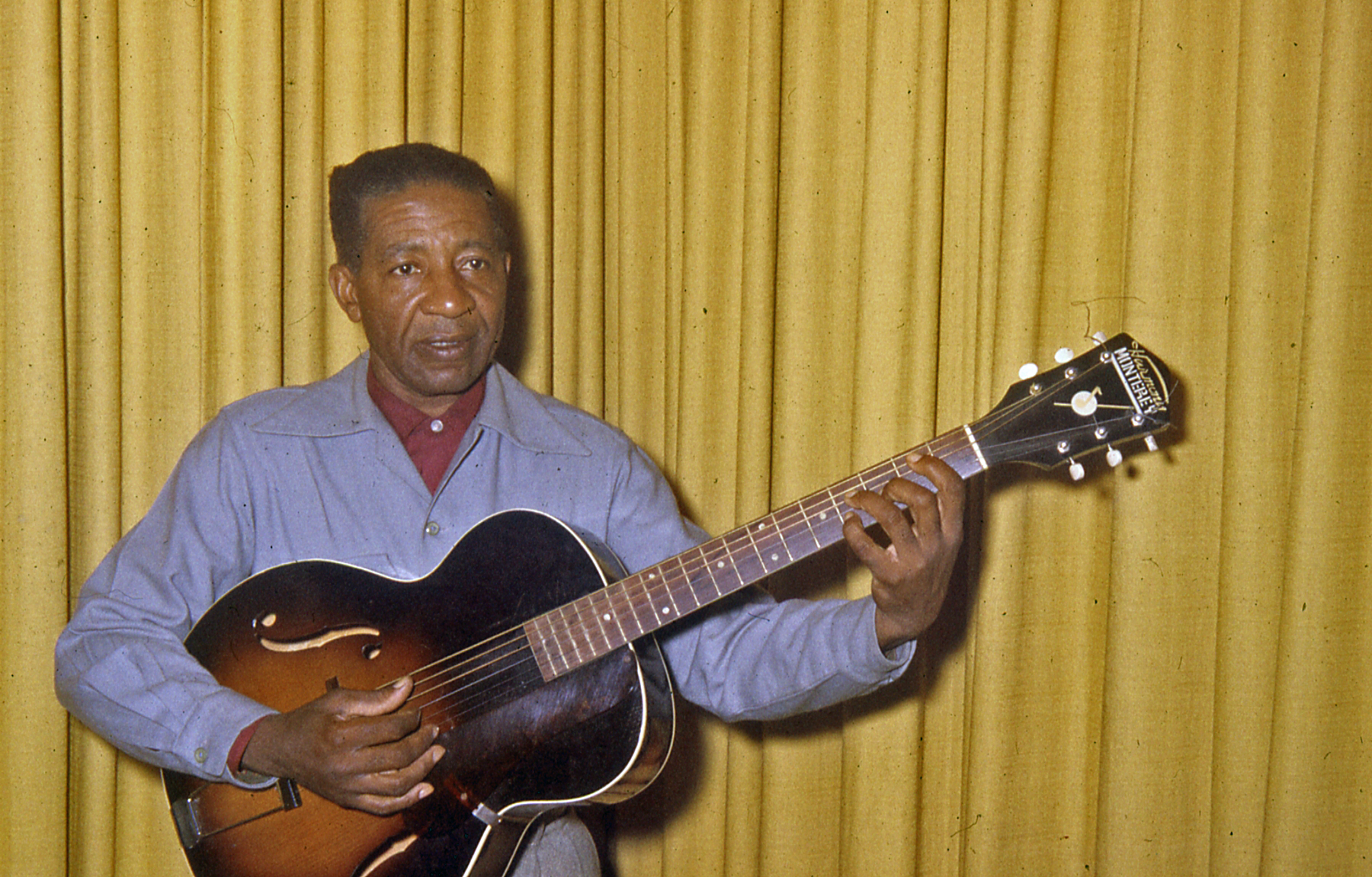 This is a 1960 photo of Lonnie Johnson taken by me at my Philadelphia apartment. guitar model: Harmony Monterey (c.1937-c.1972) acoustic archtop guitar